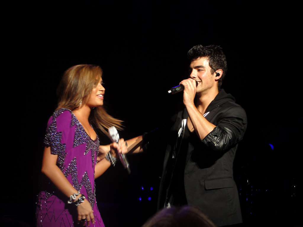 Joe Jonas and Demi Lovato performing in the Jonas Brothers Live In Concert